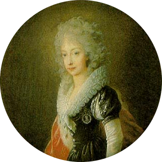 Portrait of Archduchess Maria Clementina of Austria (1777-1801), later Crown Princess of Naples.